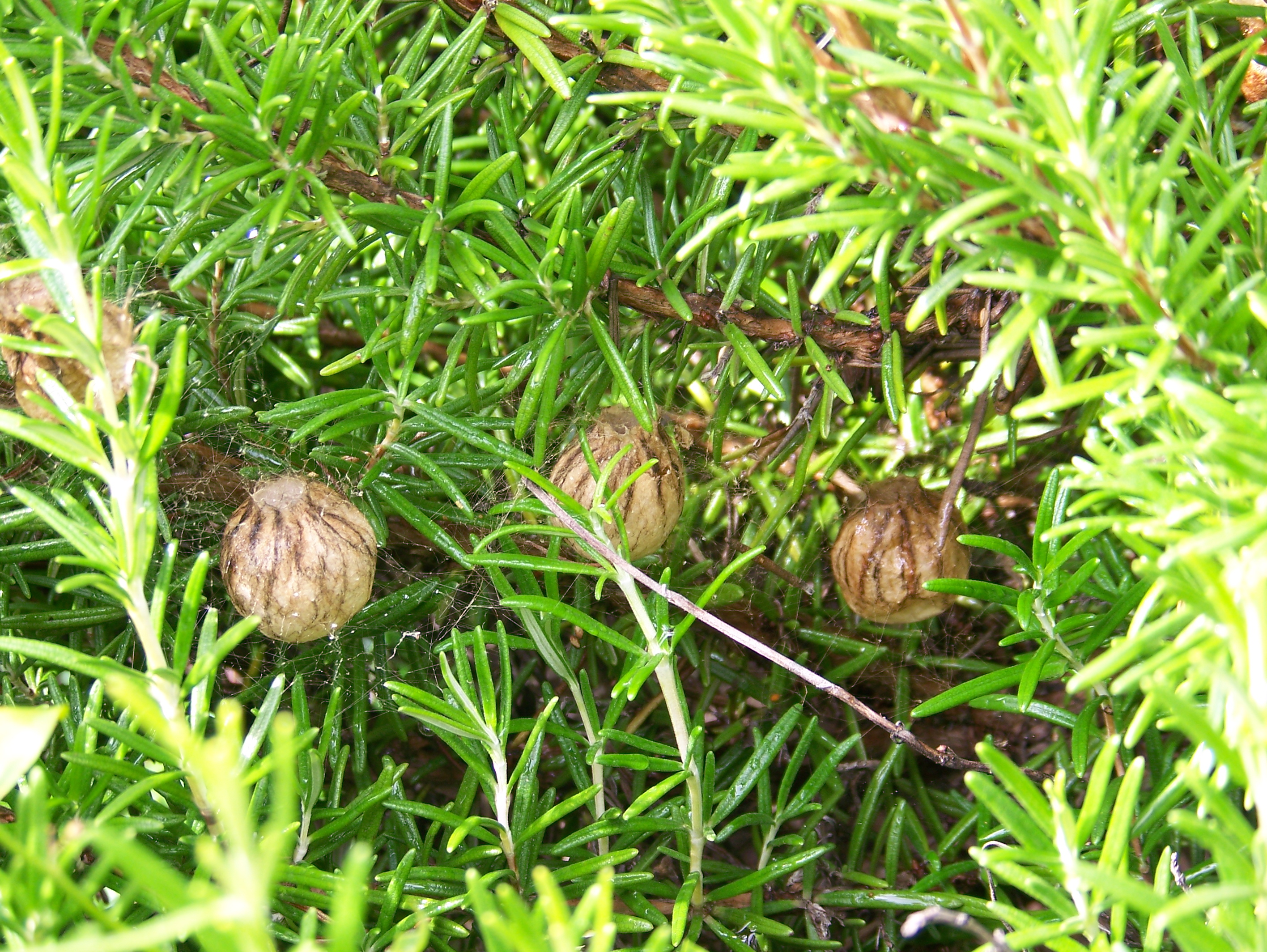 Several large (2.2 cm) completed eggsacks in a rosemary bush.